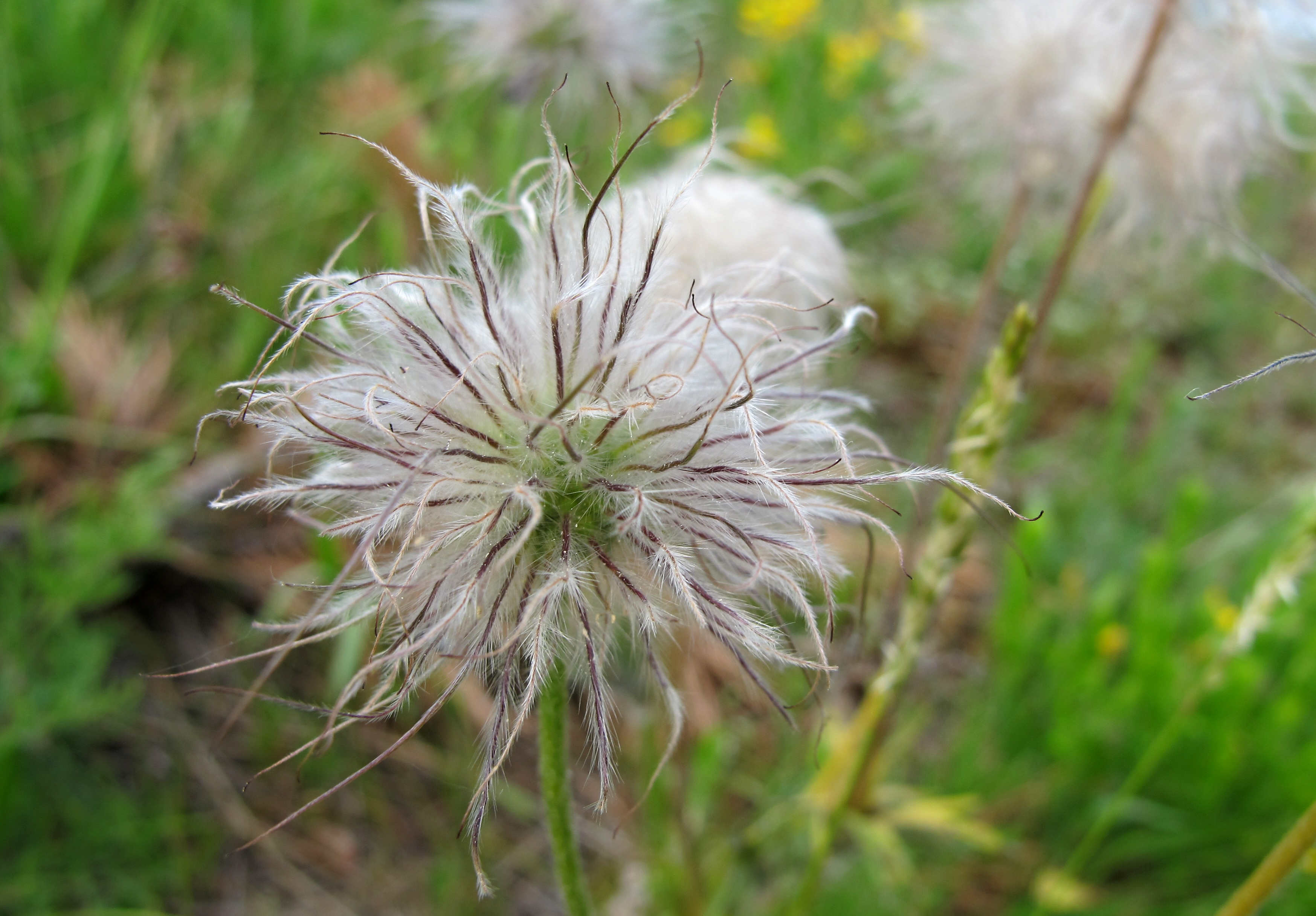 Pulsatilla pratensis in natural monument Na horách near Křešín (near Jince) in Příbram Dístrict